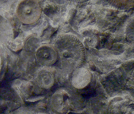 Laudonomphalus regularis (Natural historical museum of Lille, north of France), Givetian, Denvonian.